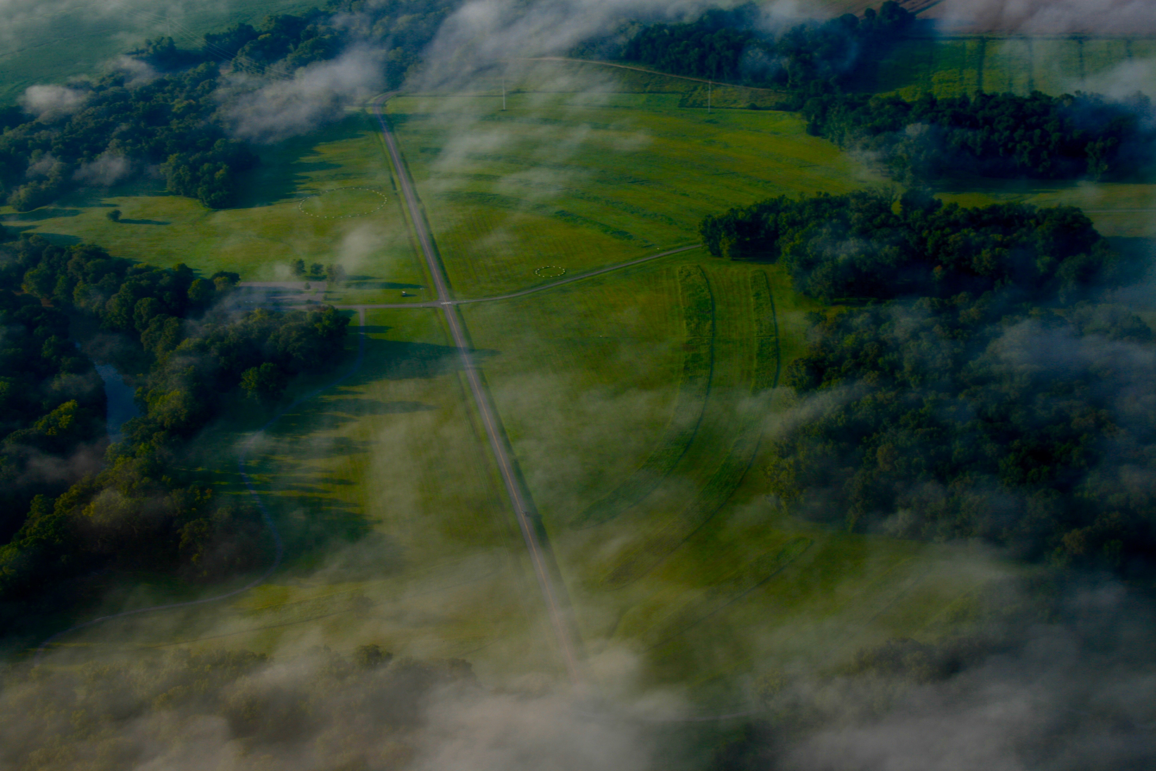 From this aerial angle you can see the vast amount of landscape this mystical wonder encompasses.